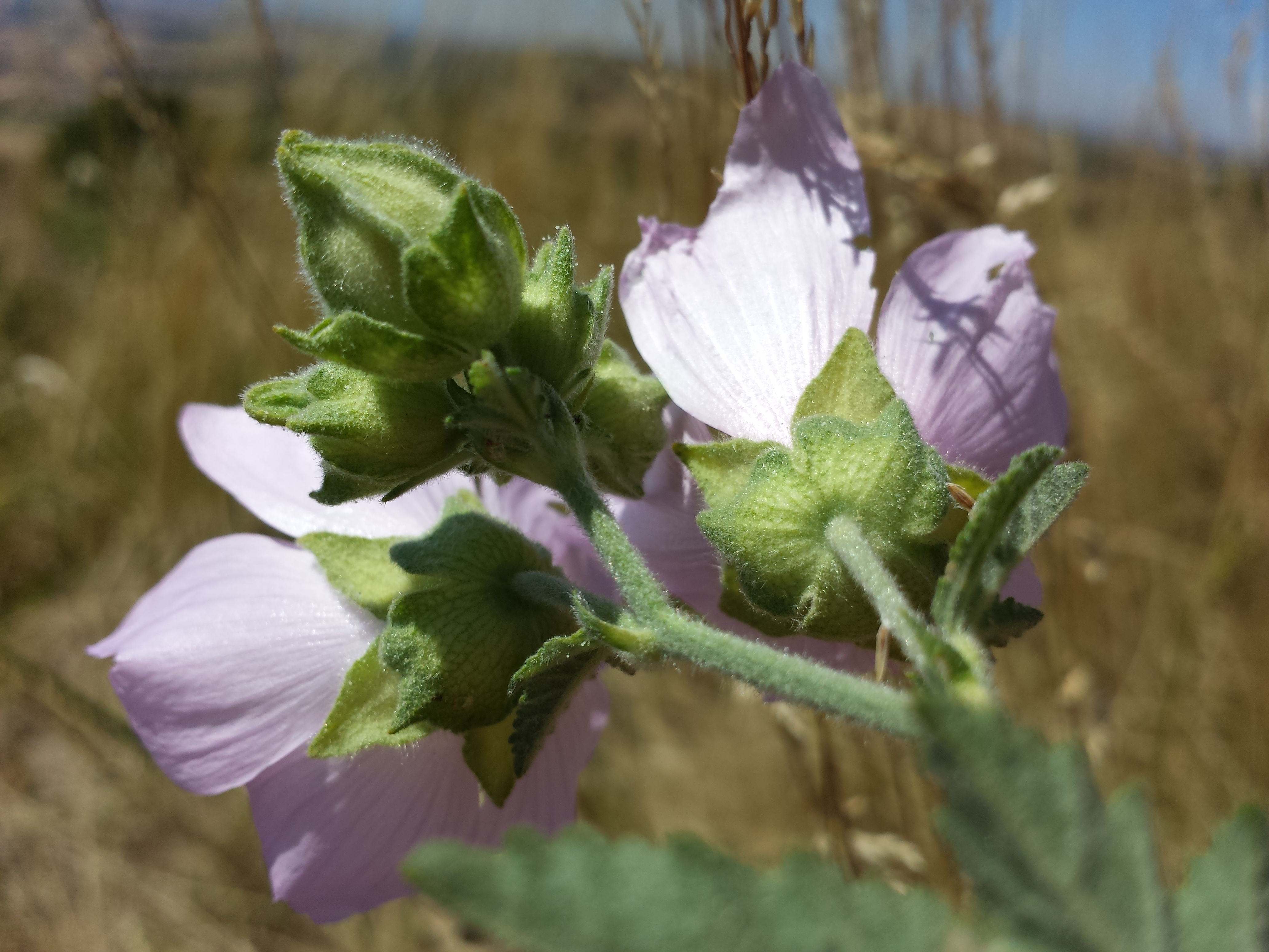 Inflorescence Taxonym: Lavatera thuringiaca ss Fischer et al. EfÖLS 2008 ISBN 978-3-85474-187-9 Location: motte near Buschberg, Leiser Berge, district Korneuburg, Lower Austria - ca. 485 m a.s.l. Habitat: dry grassland on lime stone